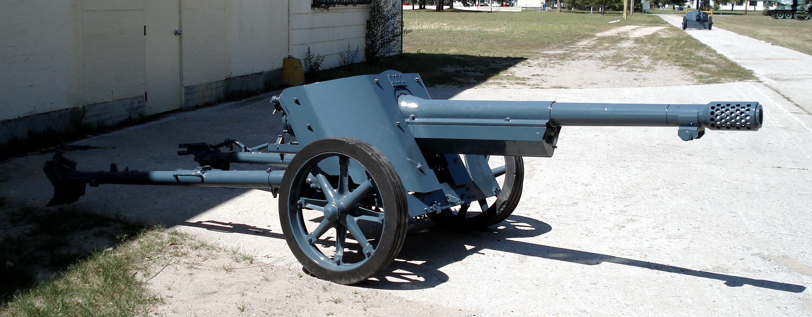 Pak 97/38 at Base Borden Military Museum. Photo taken on August 12, 2006. Source: Photo by me, User:Balcer.